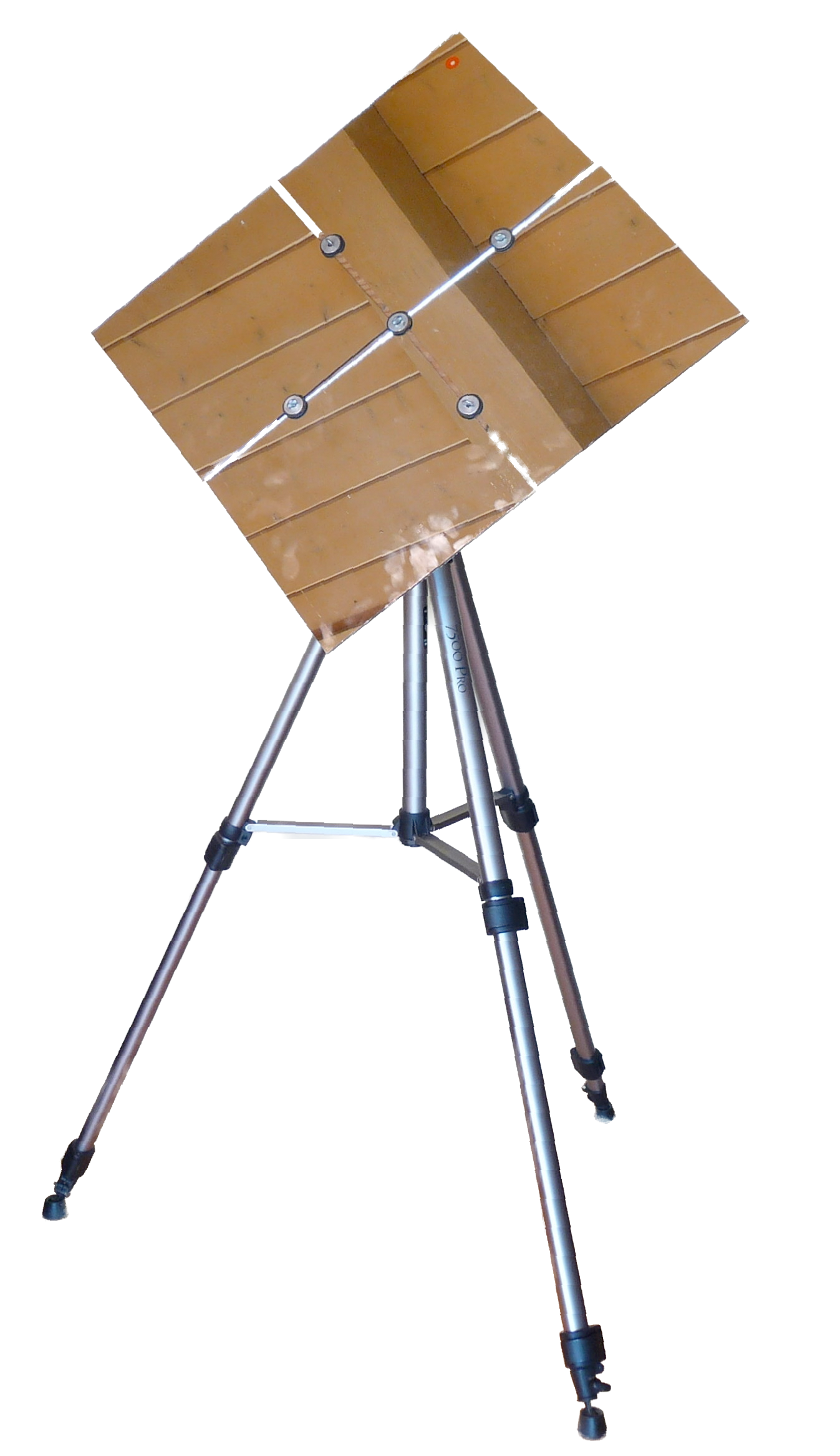 Operation On-Target quadruple modular signal mirror. An example of the modular "quad mirror" used in the Boy Scout event, "Operation On-Target". This signal mirror has a retroreflective "red dot" aimer at the top corner. The plans for this device are in the chapter "Operation On-Target" of the Scouting handbook "Varsity Team Handbook, Vol. 2". The handbook can be downloaded for free from the Boy Scouts of America website at